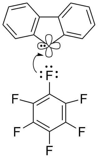 Hexafluorobenzene Solvation of Fluorenylidene